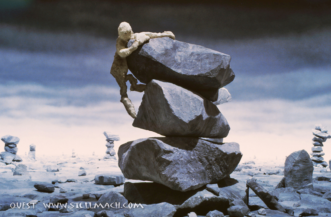 Film still of the animated short film QUEST, which got the Oscar 1997 for the best animated short film. Producer: Thomas Stellmach, Director: Tyron Montgomery